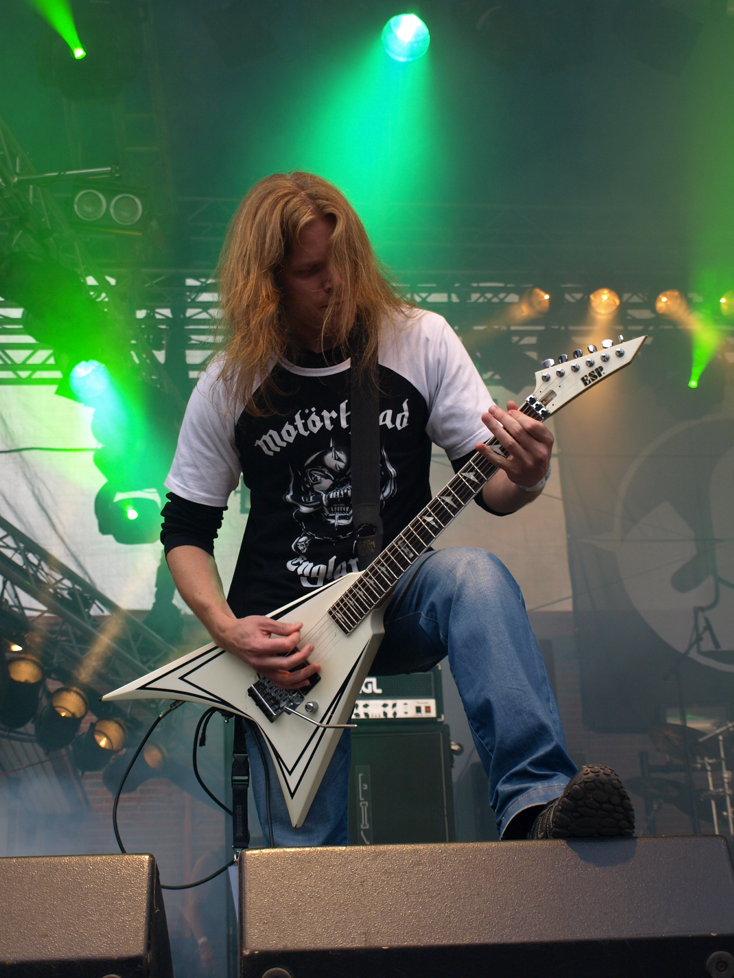 Finnish metal band Sotajumala live at Jalometalli 2008 in Oulu.